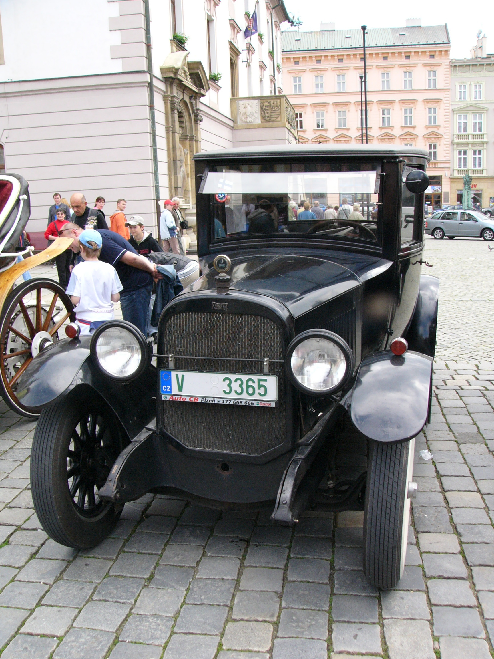 Chandler Motor Car Chandler Opera Coupe series 27, year 1919